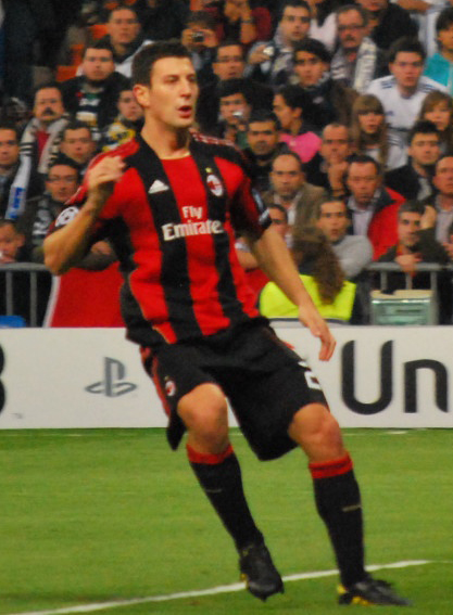 Daniele Bonera during Real Madrid CF-AC Milan, 2010–11 UEFA Champions League